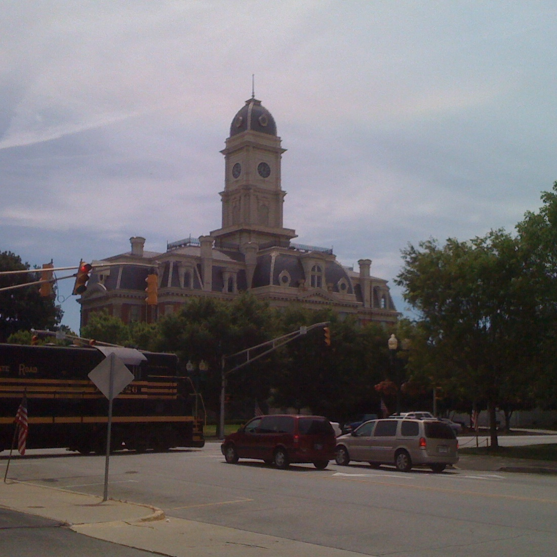 The Noblesville Court House with a train passing through downtown Noblesville in the foreground.